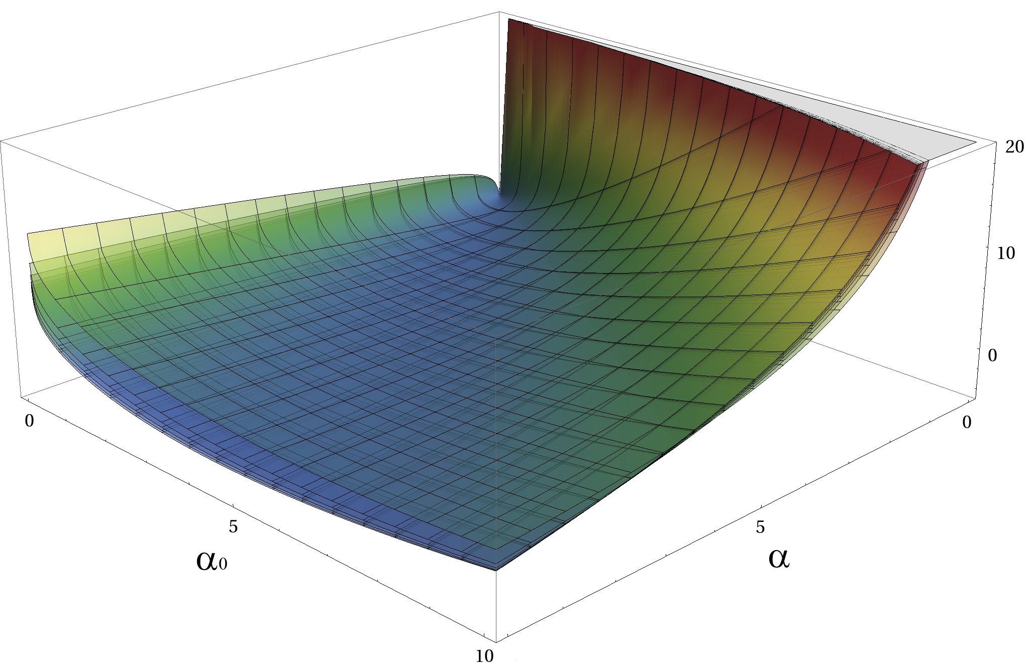 The Kullback–Leibler divergence for two Gamma PDF's. Here β = β 0 + 1 {\displaystyle \beta =\beta 0+1} which are set to 1,2,3,4,5 and 6.